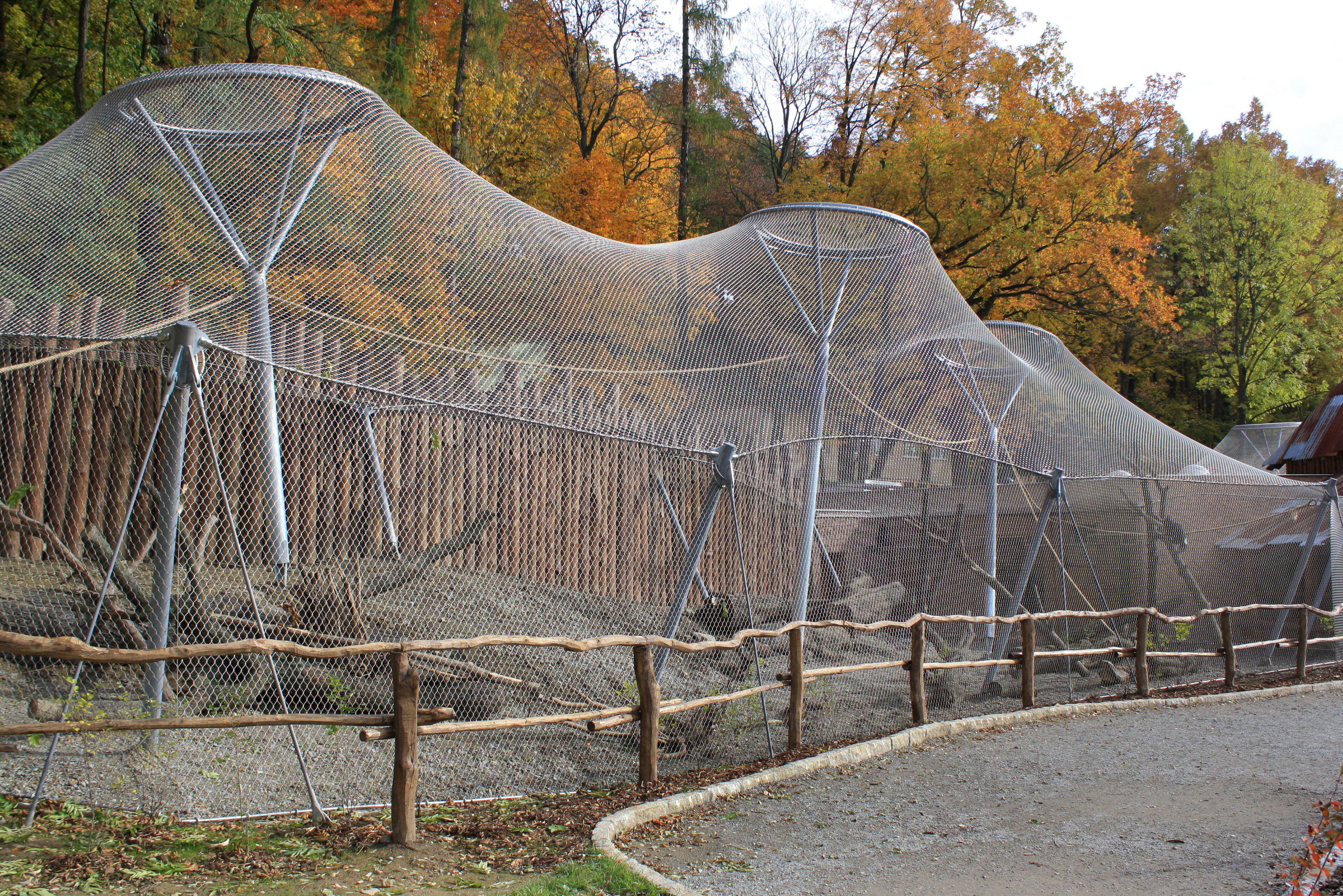 African Apes exposition in Zoo Jihlava, Czech Republic